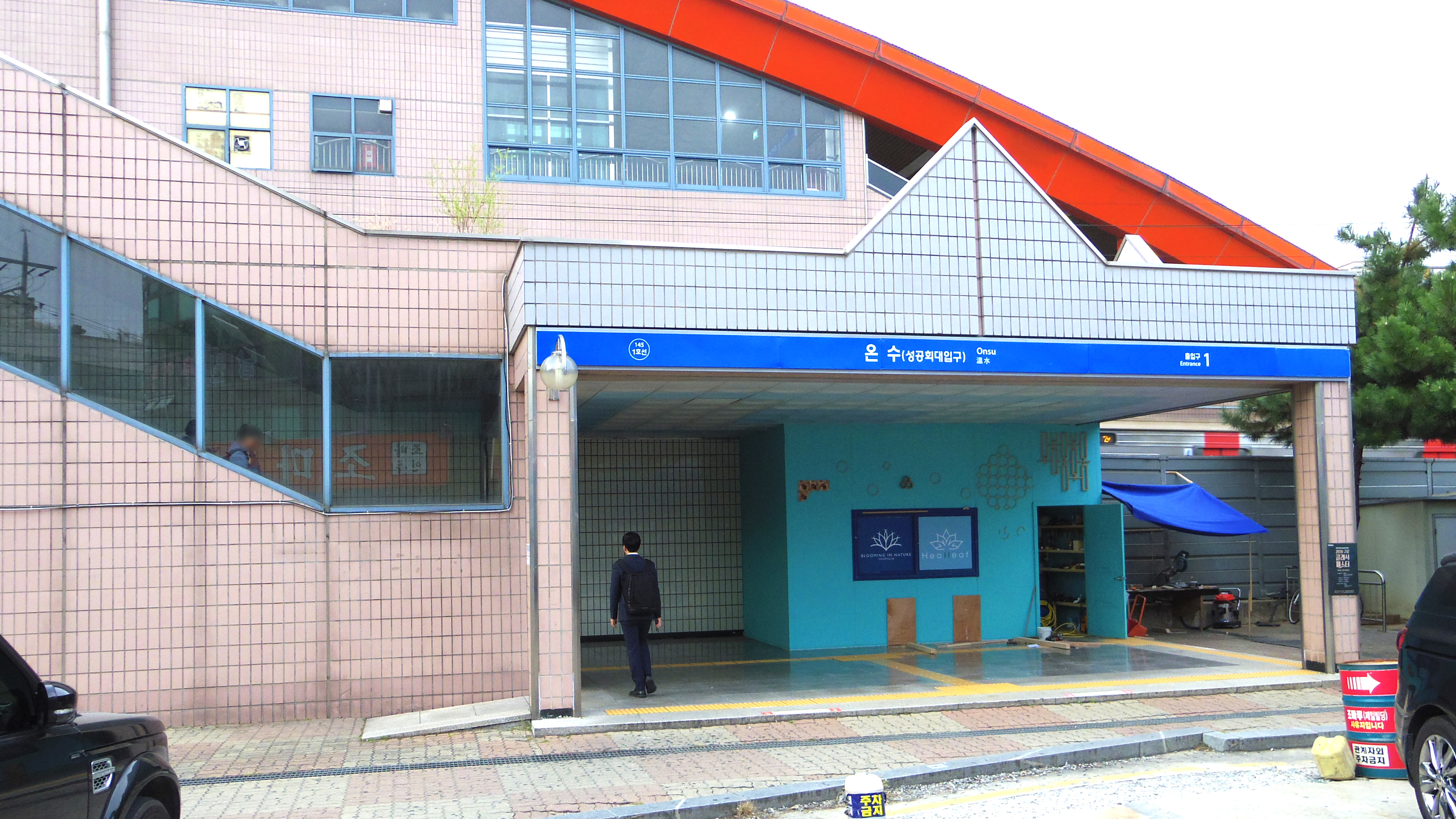 The no.1 entrance to Onsu Station on the Gyeongin Line(Seoul Metro Line 1) and Seoul Metro Line 7 in Guro-gu, Seoul, Republic of Korea(South Korea)